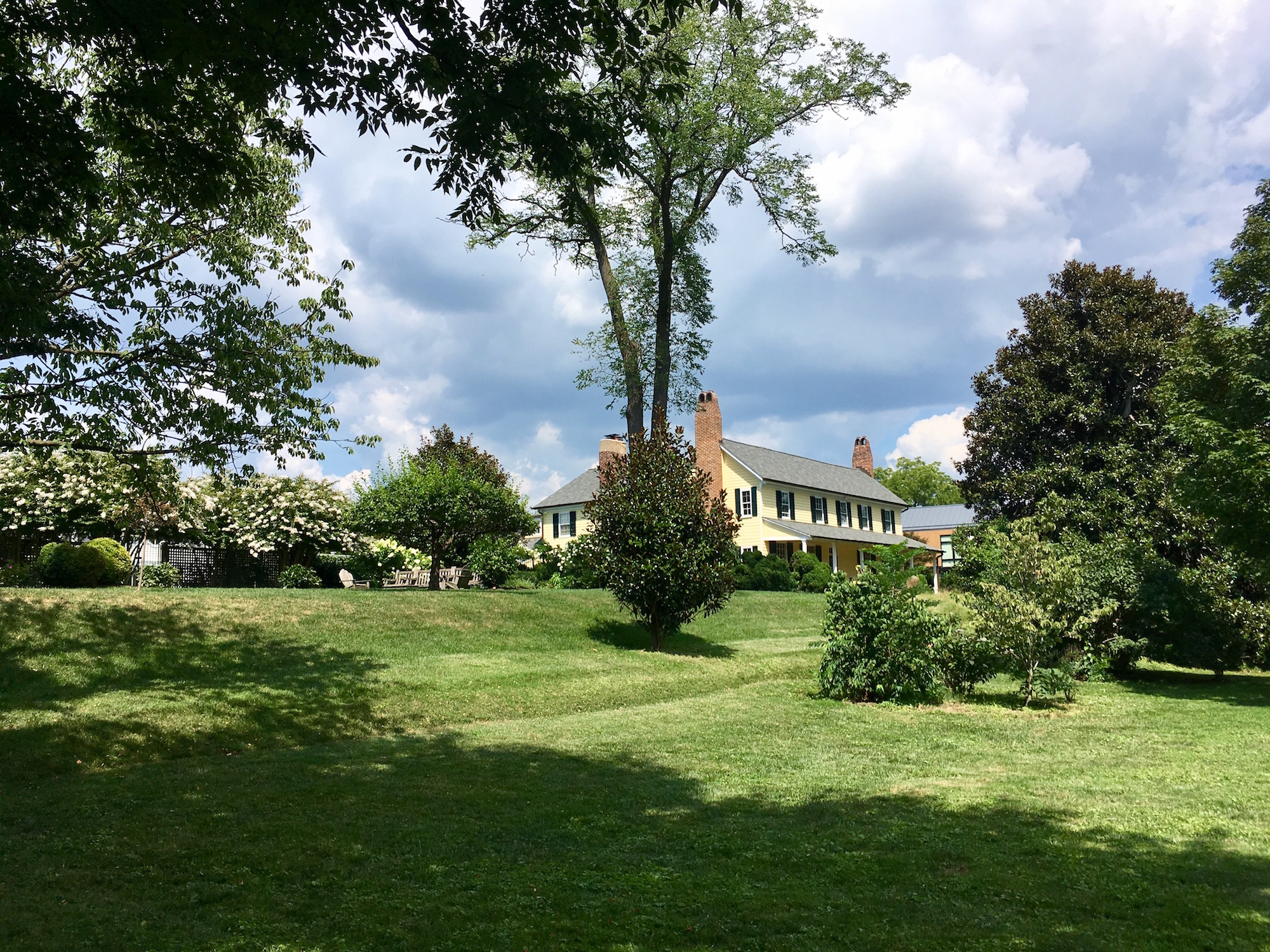 Rosedale (Pretty Prospects) in Cleveland Park, Washington, DC, grounds and 1793 farmhouse, photographed in August 2017